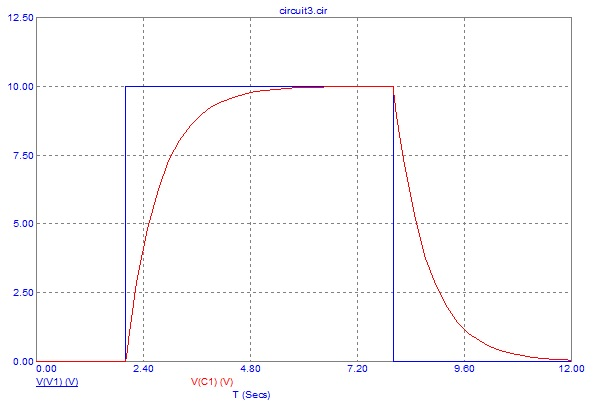 Tension at RC circuit - graphic